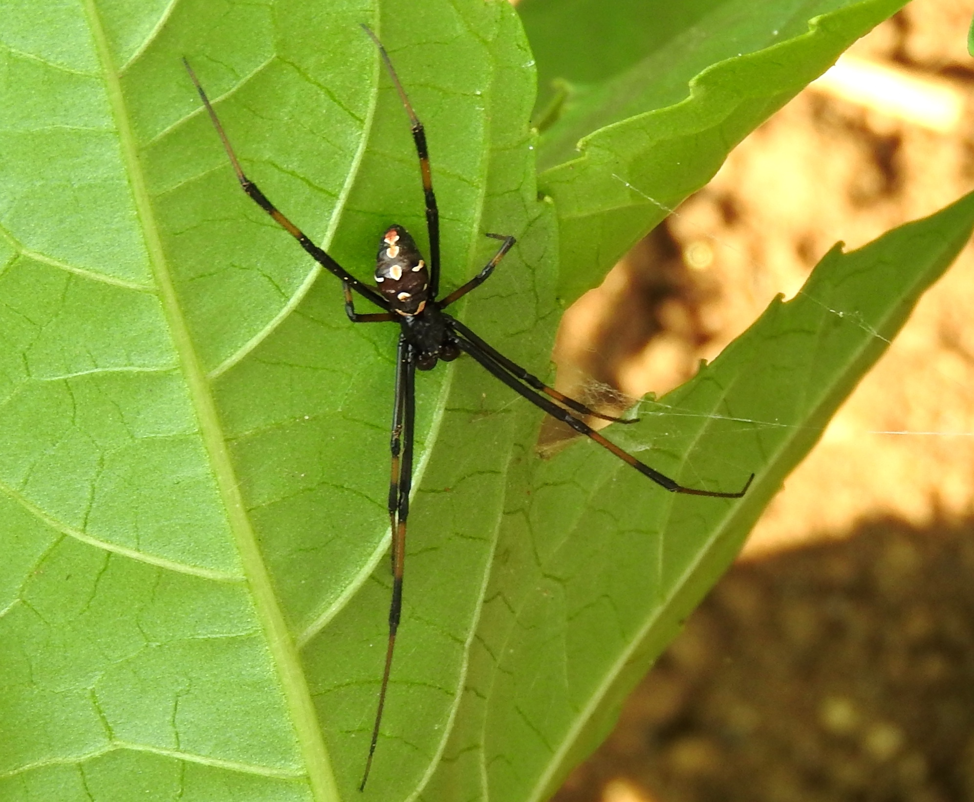 Southern Black Widow (Latrodectus mactans)